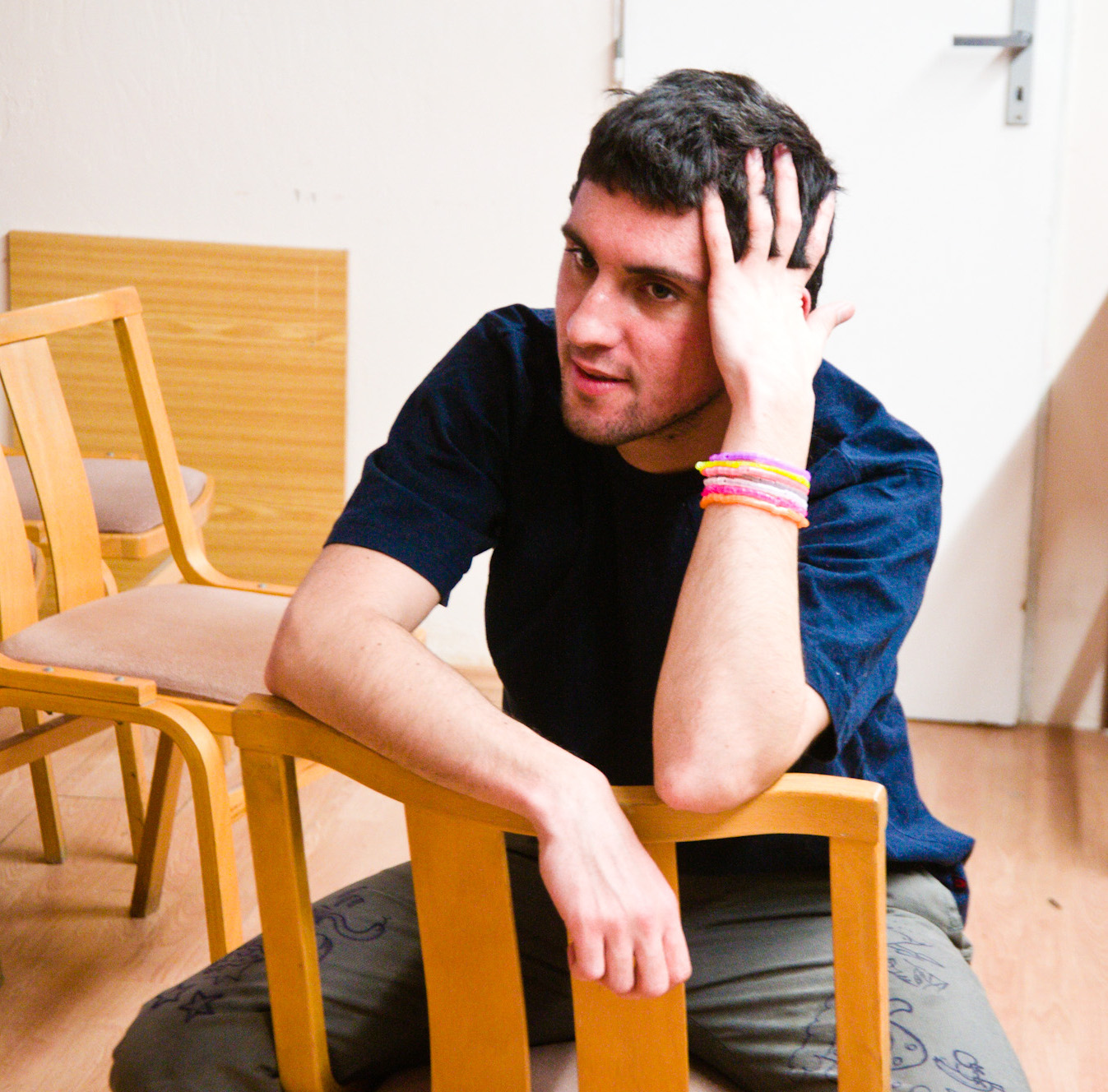 Amir Taaki in Bratislava December 2012